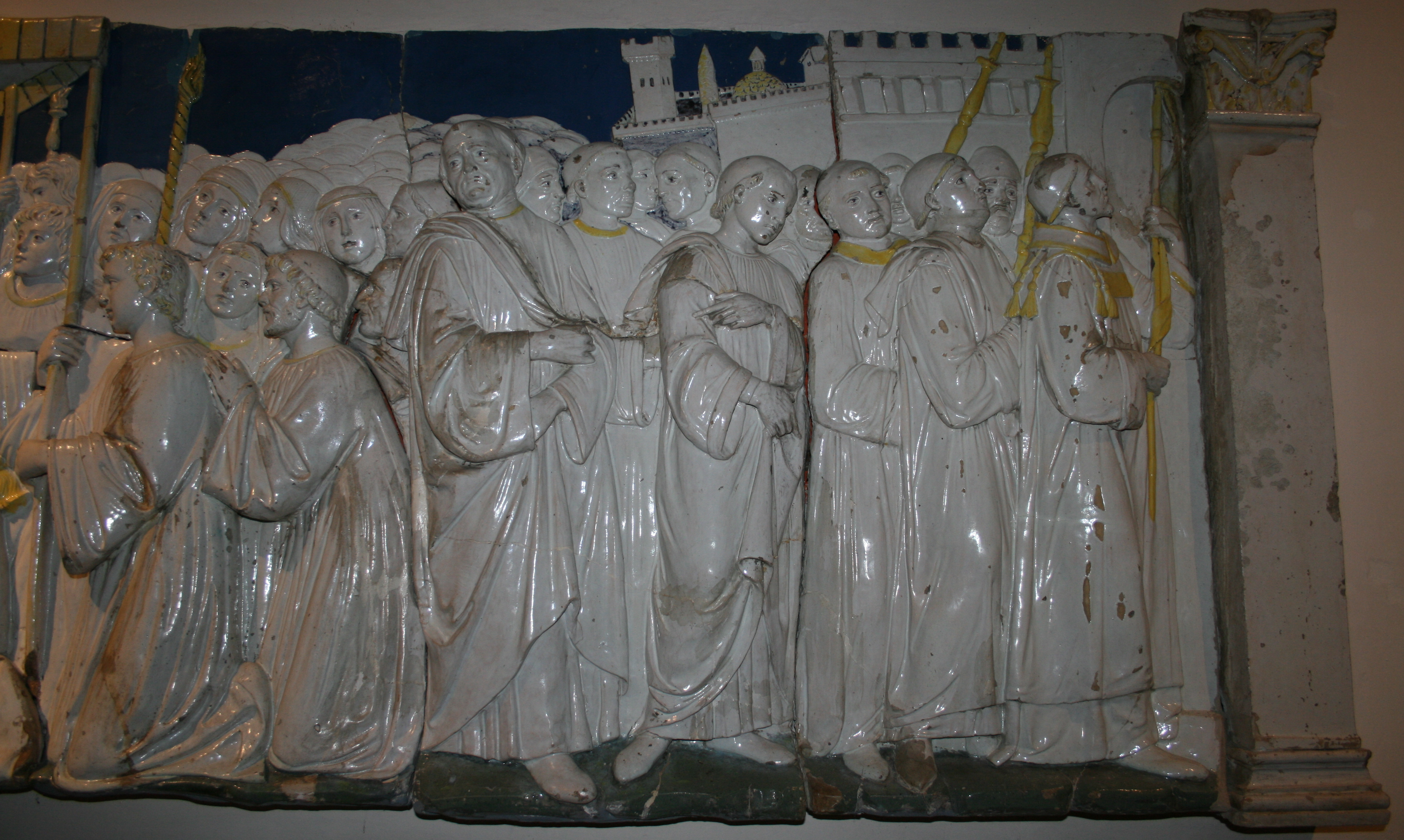 Detail of Guido Guerra VI giving the Holy Milk Relic to the San Lorenzo Church in Montevarchi by Andrea della Robbia